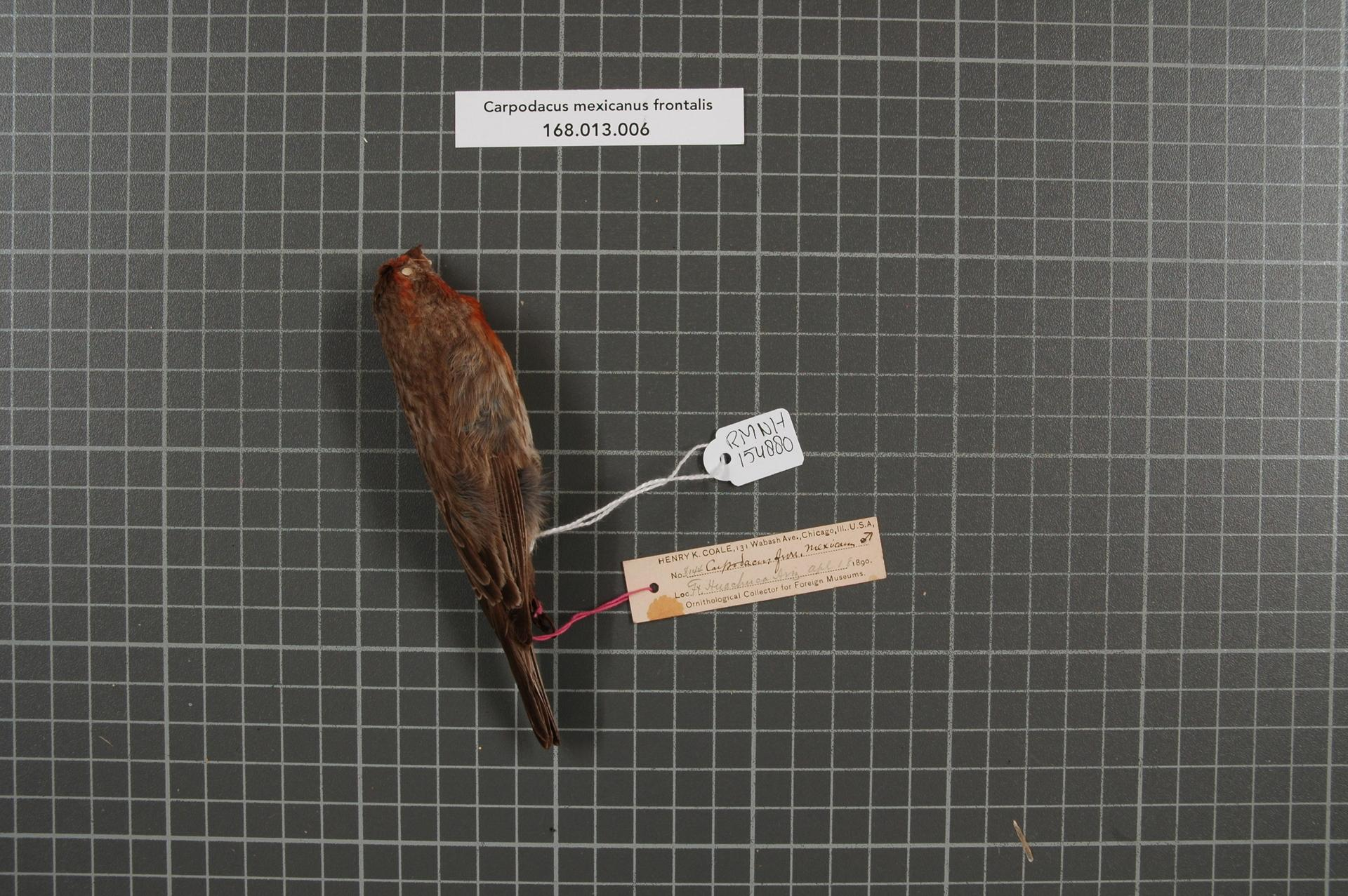 Carpodacus mexicanus frontalis (Say, 1823)